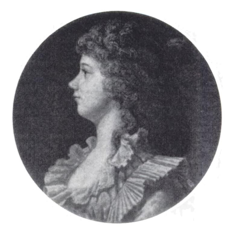 Natalie DeLage Sumter (Nathalie de Lage de Volude). Drawing by Charles Balthazar Julien Févret de Saint-Mémin (1770–1852)